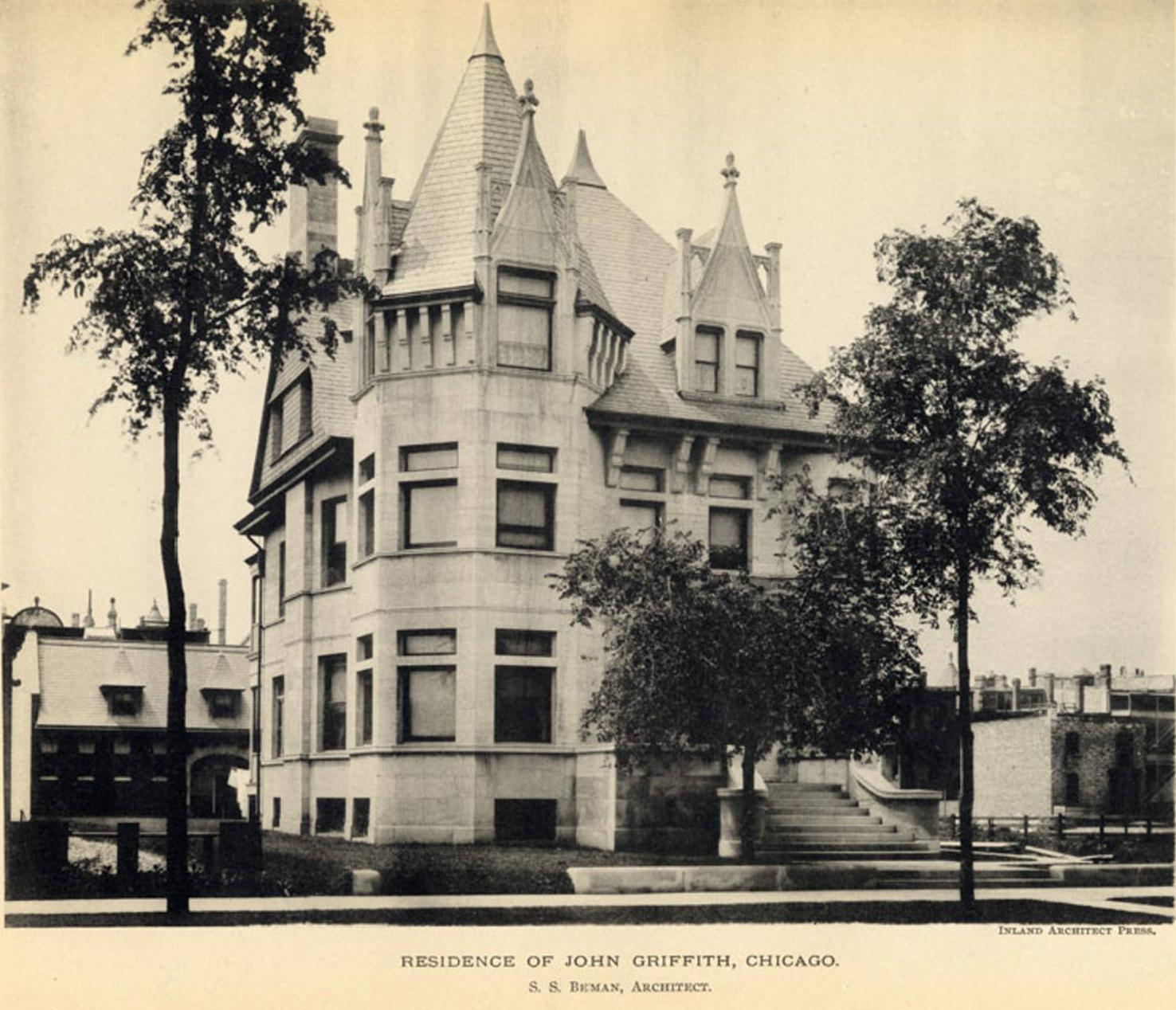 Image of the John W. Griffiths house - Solon Spencer Beman, architect - as it appeared in The Inland Architect and News Record, Volume XX no. 1